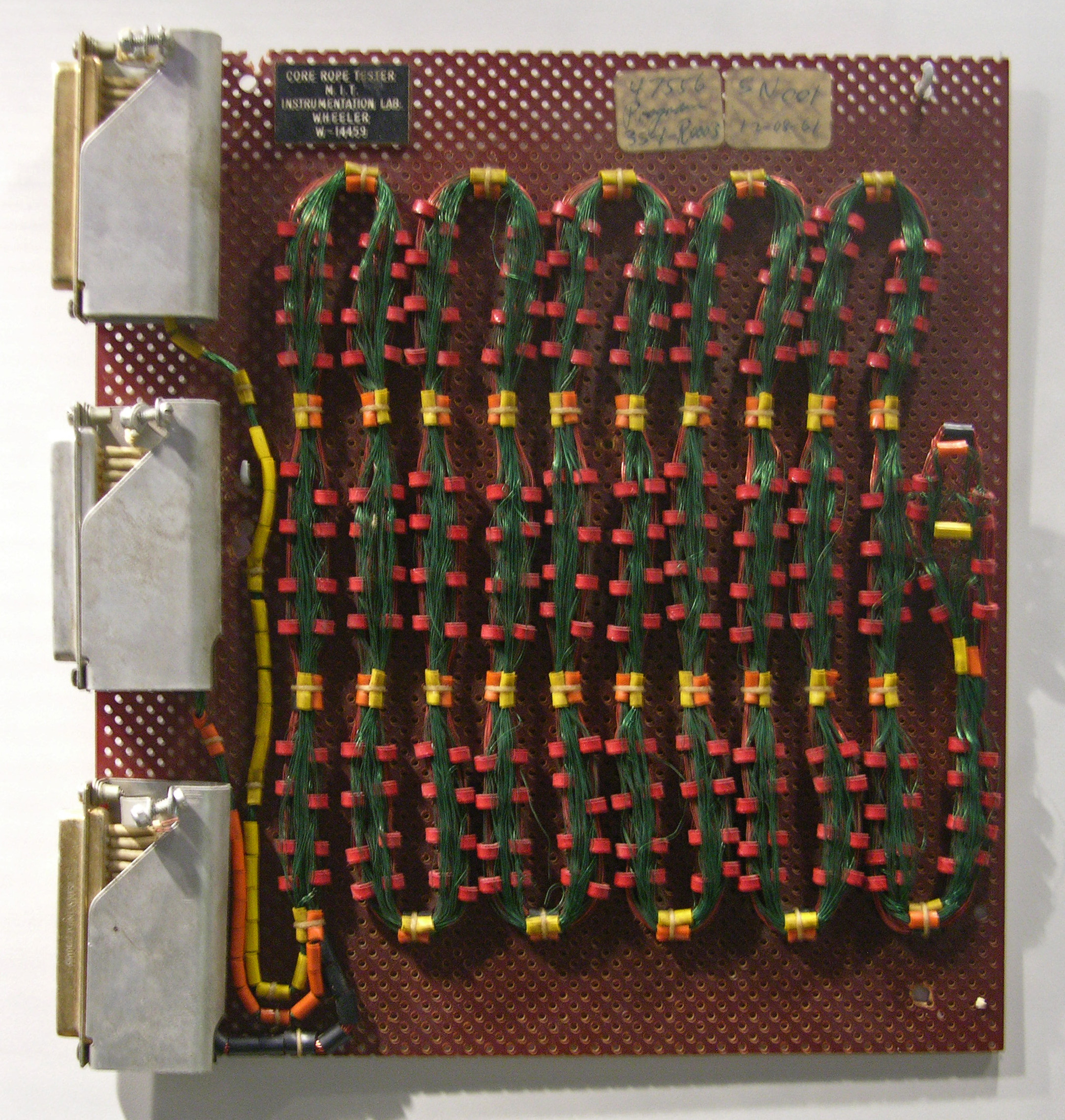 Ferrite core memory as used in the Apollo Guidance Computer (MIT sample for testing)